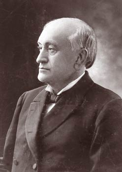 Phineas F. Bresee American theologians, founder of Church of the Nazarene